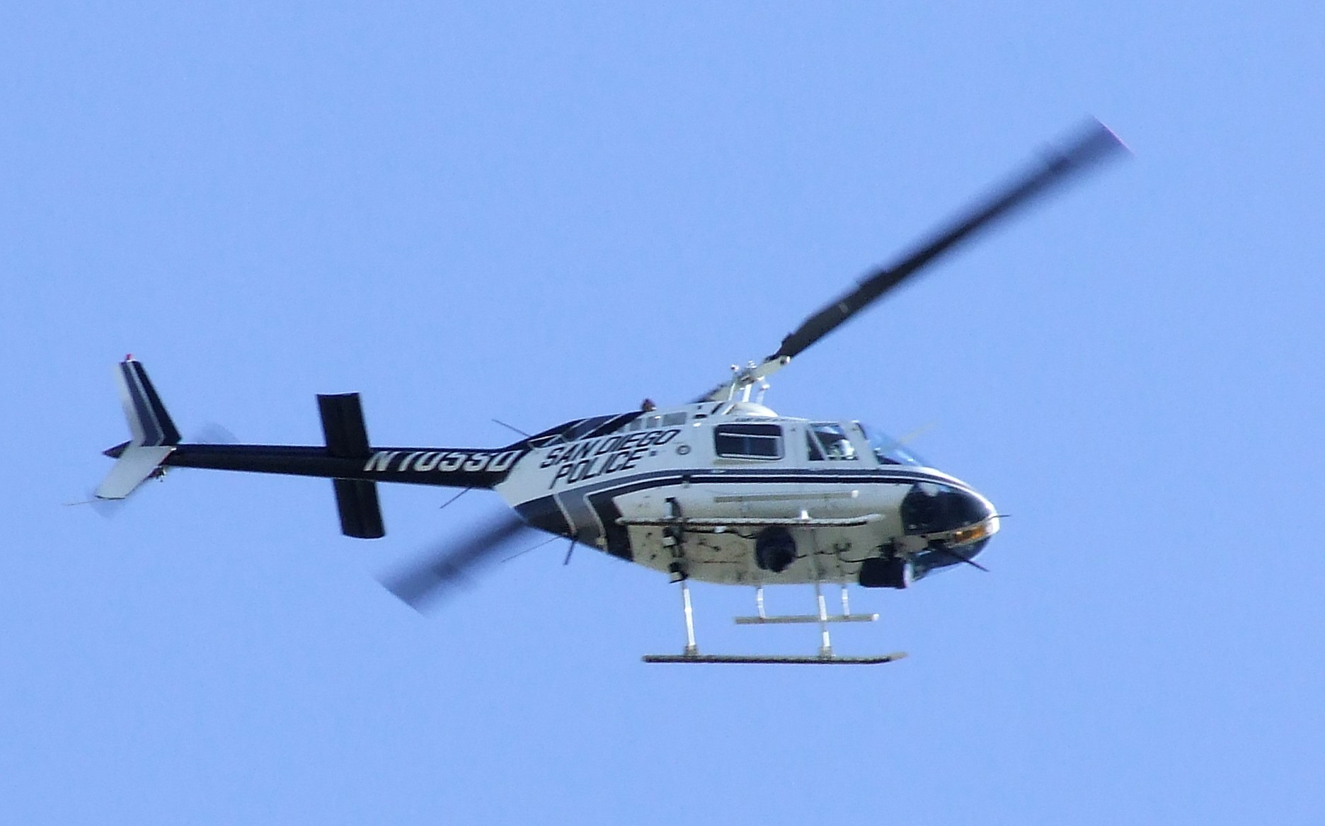 Photograph of San Diego Police Helicopter taken by User:Althepal. Some rights reserved.Althepal 05:44, 3 January 2007 (UTC)